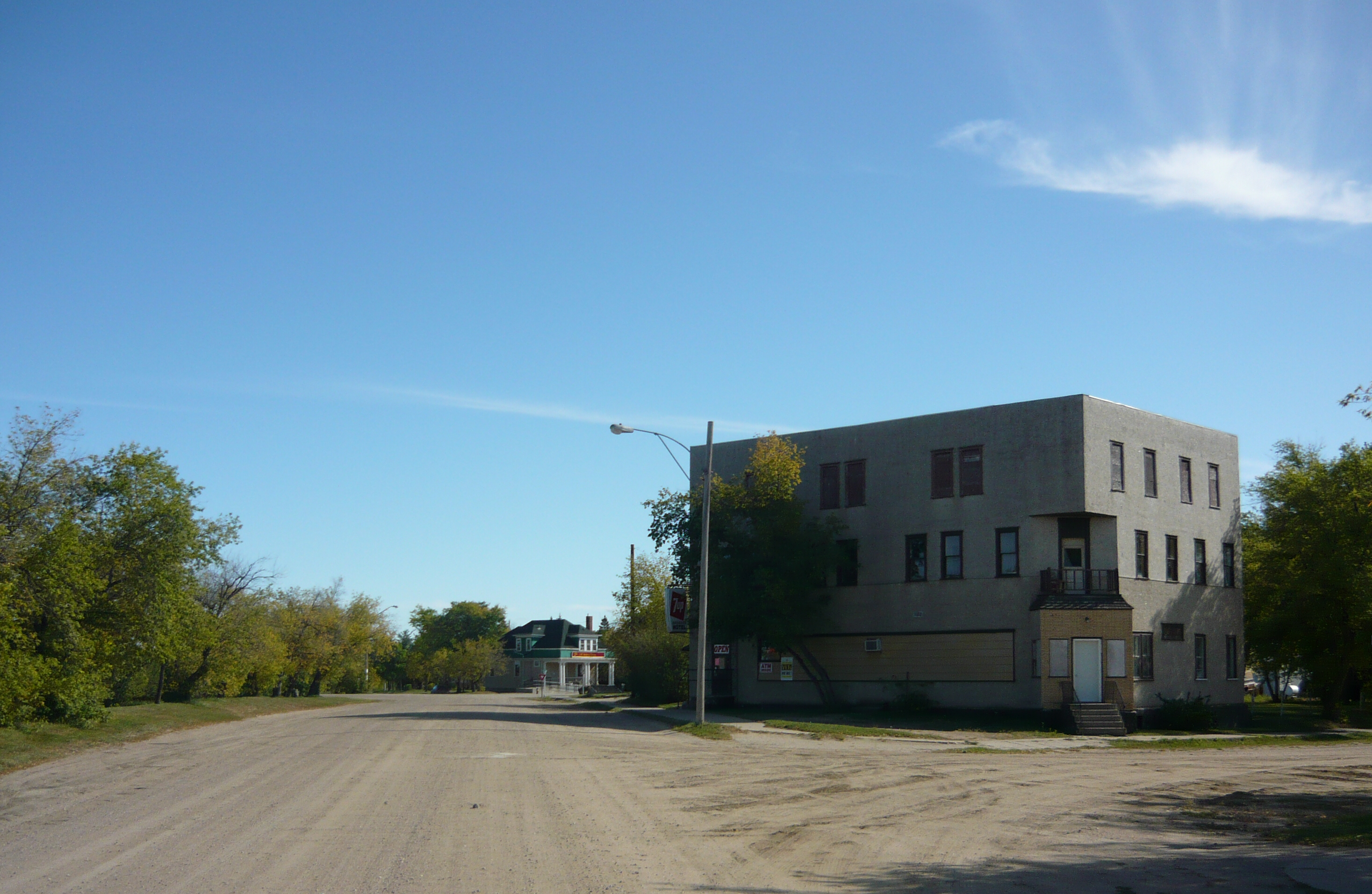 Radisson Hotel in Radisson, Saskatchewan, Canada. Taken from intersection of Railway Avenue and Albert Street, looking southeastward toward Main Street.